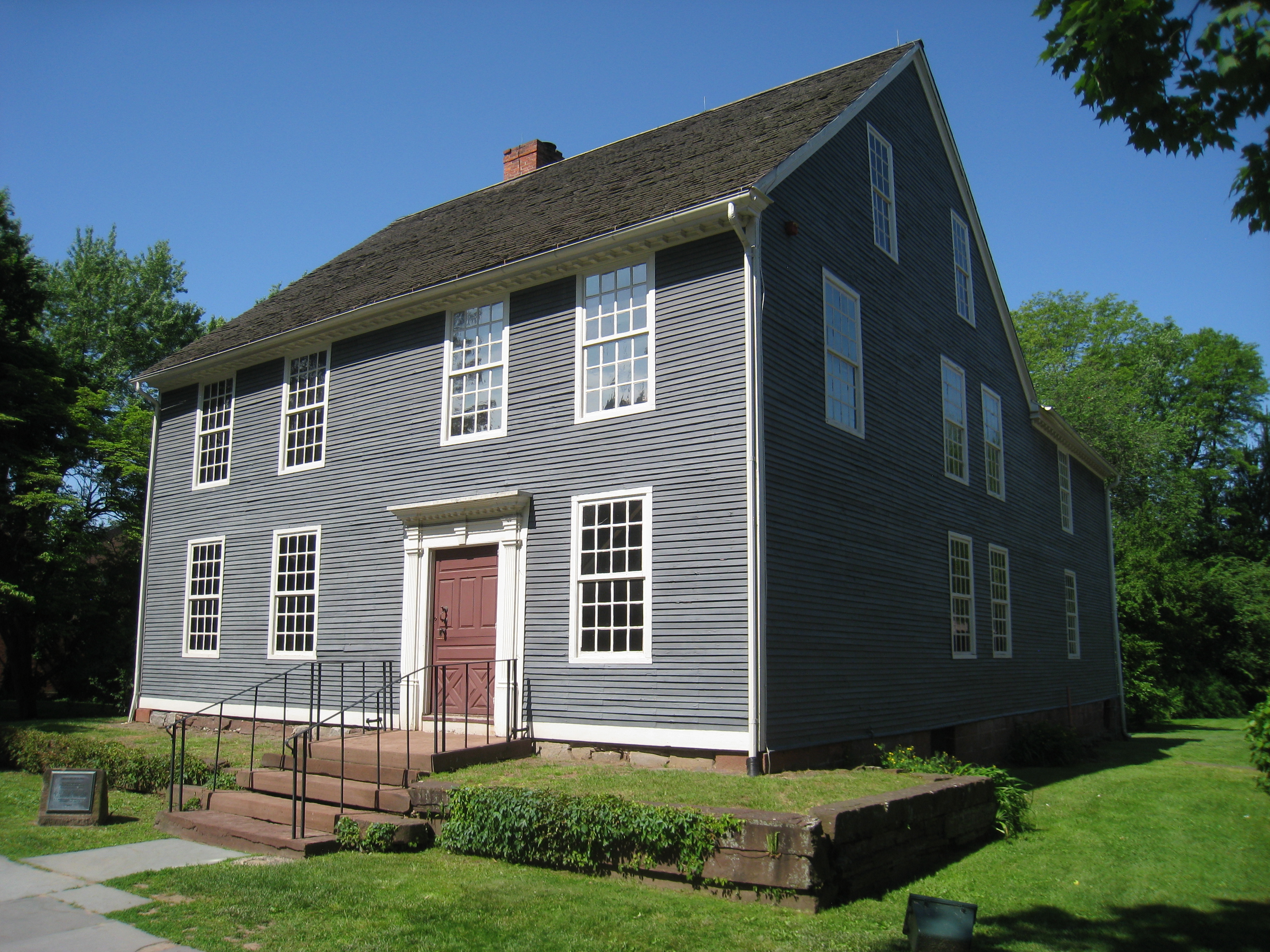 Silas Deane House, Wethersfield, Connecticut, USA. Built circa 1770.